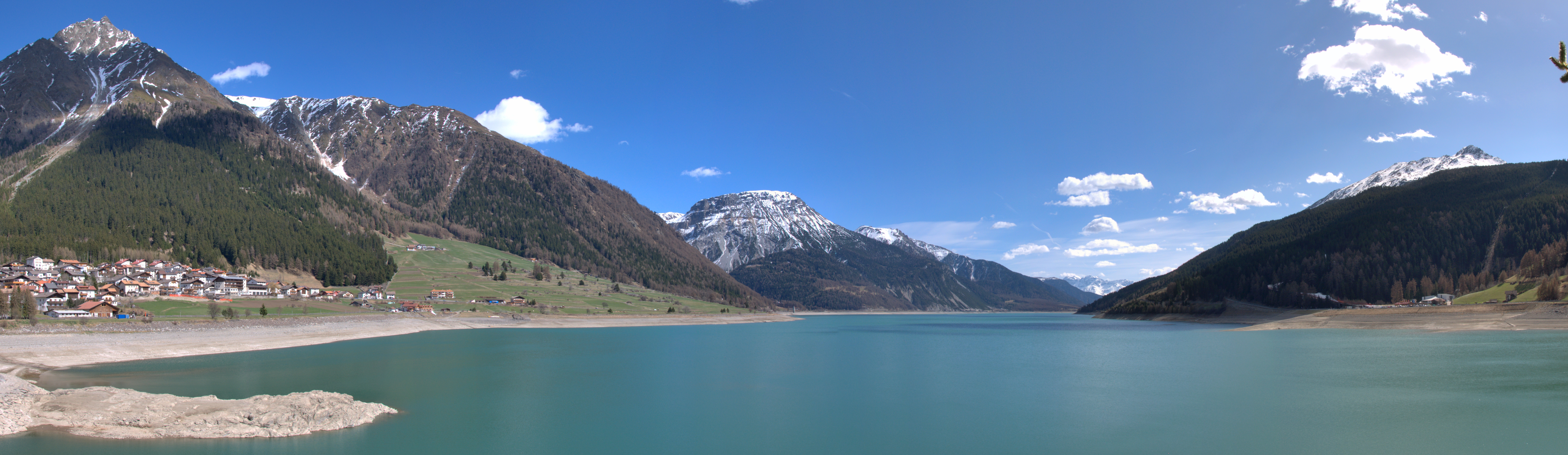 Italy, South Tyrol, panoramic impressions from South Tyrol